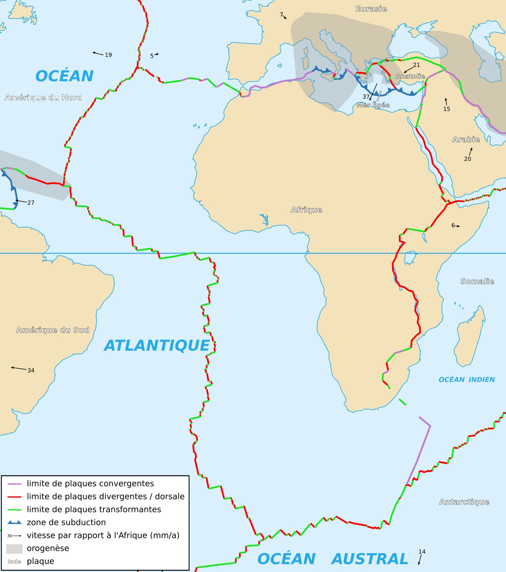 Map of the African Plate